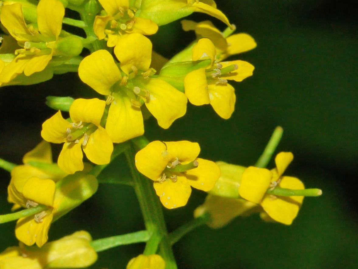 Barbarea vulgaris - Cerreto, Alessandria, Italy